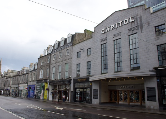 Former Capitol Theatre, cinema in Aberdeen, Scotland. Photo taken August 2019 looking down Union Street.